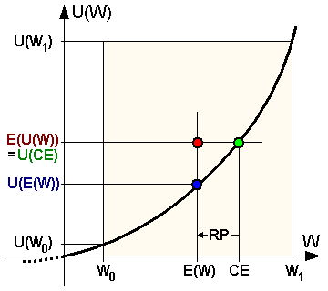 Utility function of a risk-affine (risk-loving) person: CE - Certainty equivalent; E(U(W)) - Expected value of the utility (expected utility) of the uncertain payment; E(W) - Expected value of the uncertain payment; U(CE) - Utility of the certainty equivalent; U(E(W)) - Utility of the expected value of the uncertain payment; U(W0) - Utility of the minimal payment; U(W1) - Utility of the maximal payment; W0 - Minimal payment; W1 - Maximal payment; RP - Risk premium